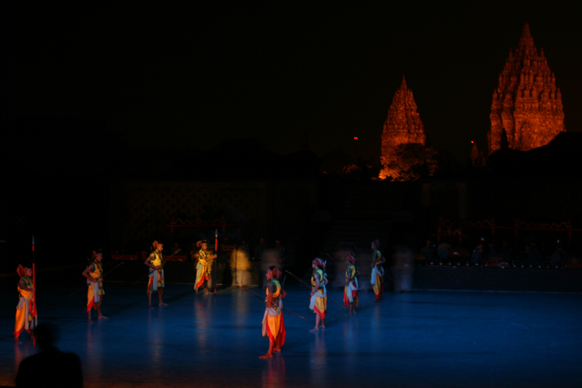 Original caption: I just wish to share the beautiful stage where this performance took place. It's an open air set with Prambanan Temple as the background.Ramayana at Prambanan Temple